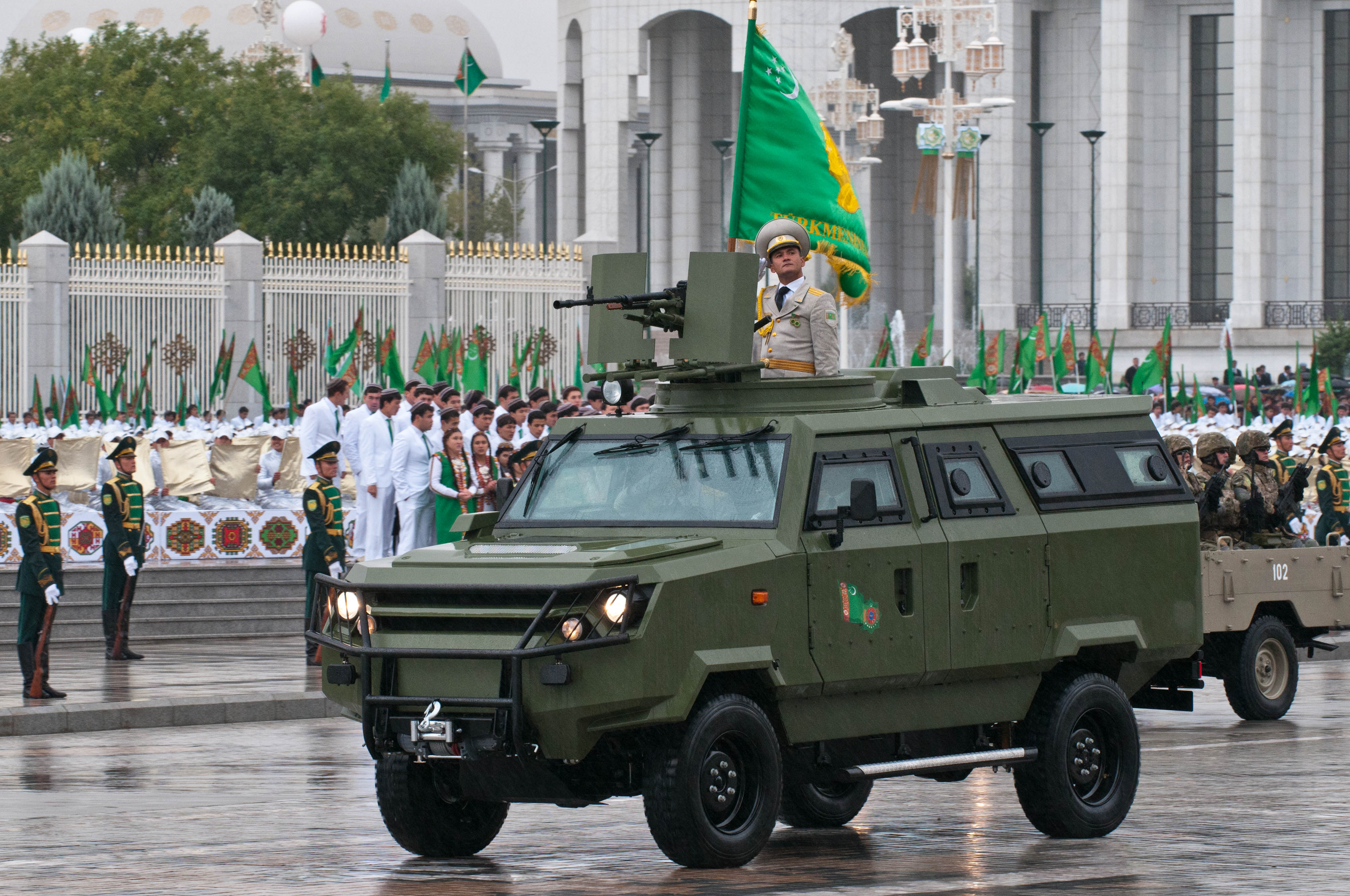 Celebrating the 20th year of independence in Turkmenistan